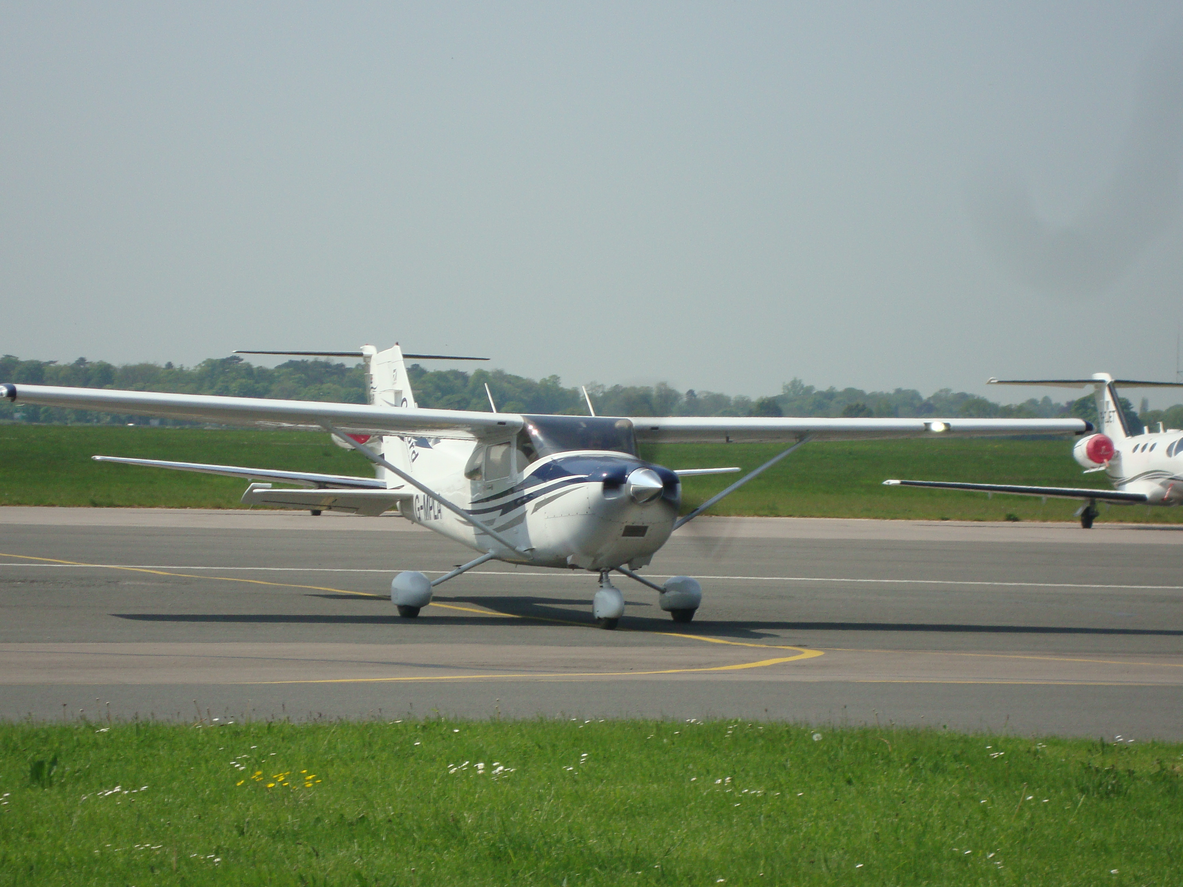 A Cessna 182 belonging to the Oxford Aviation Academy at London Oxford Airport, Oxfordshire, UK.